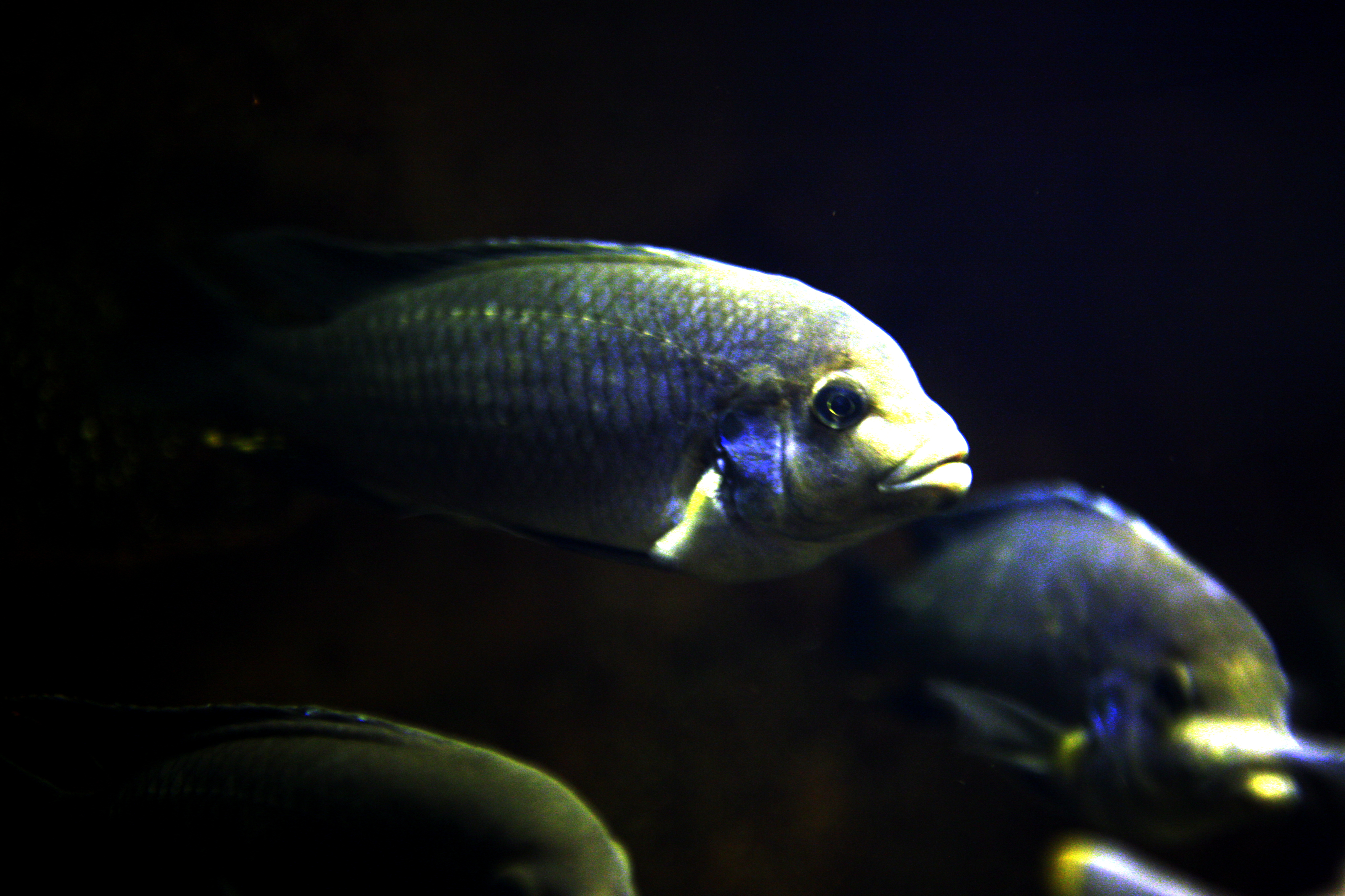 Maylandia zebra